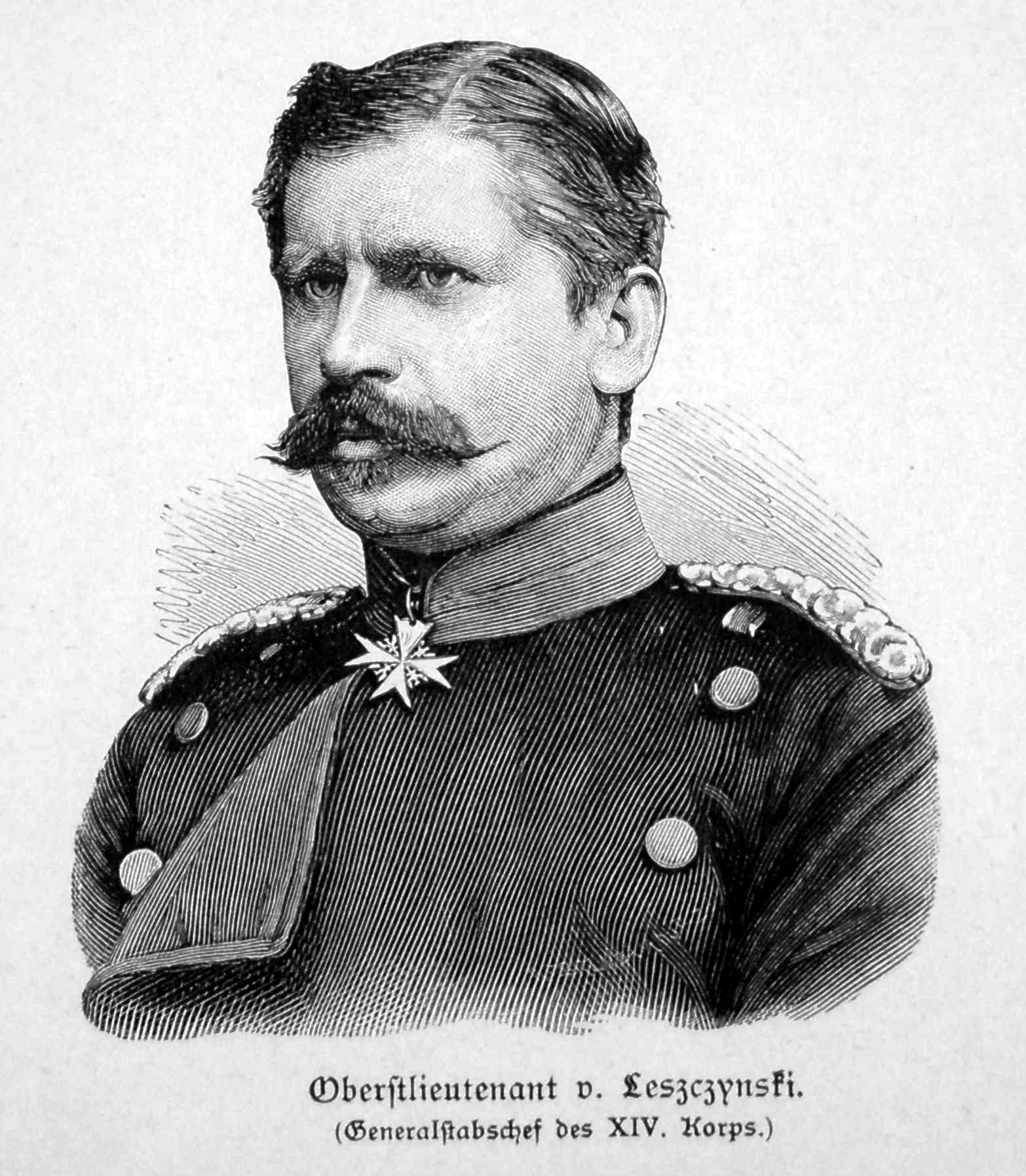 lieutenant colonel von Leszczynski